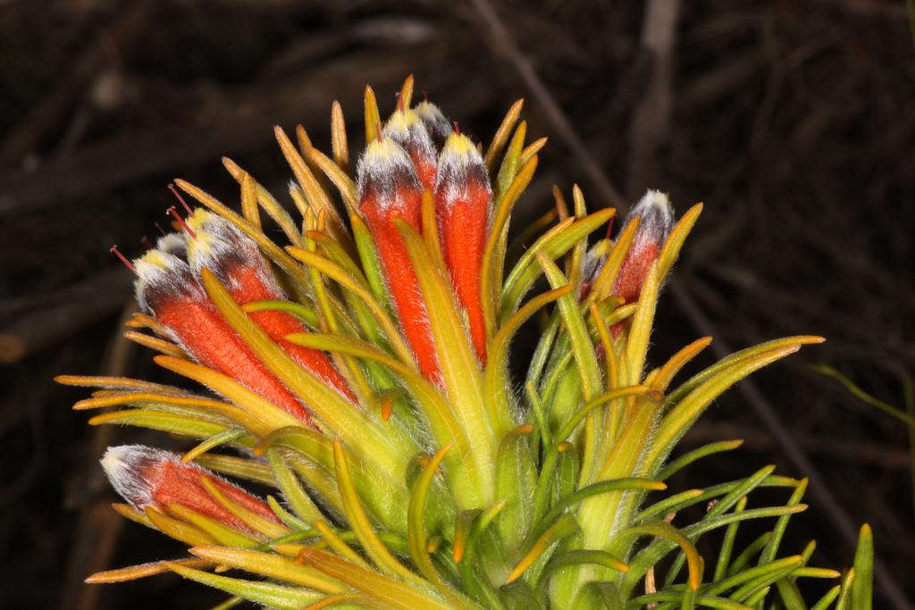 Retzia capensis (heuningblom) - the only member of the family Retziaceae.